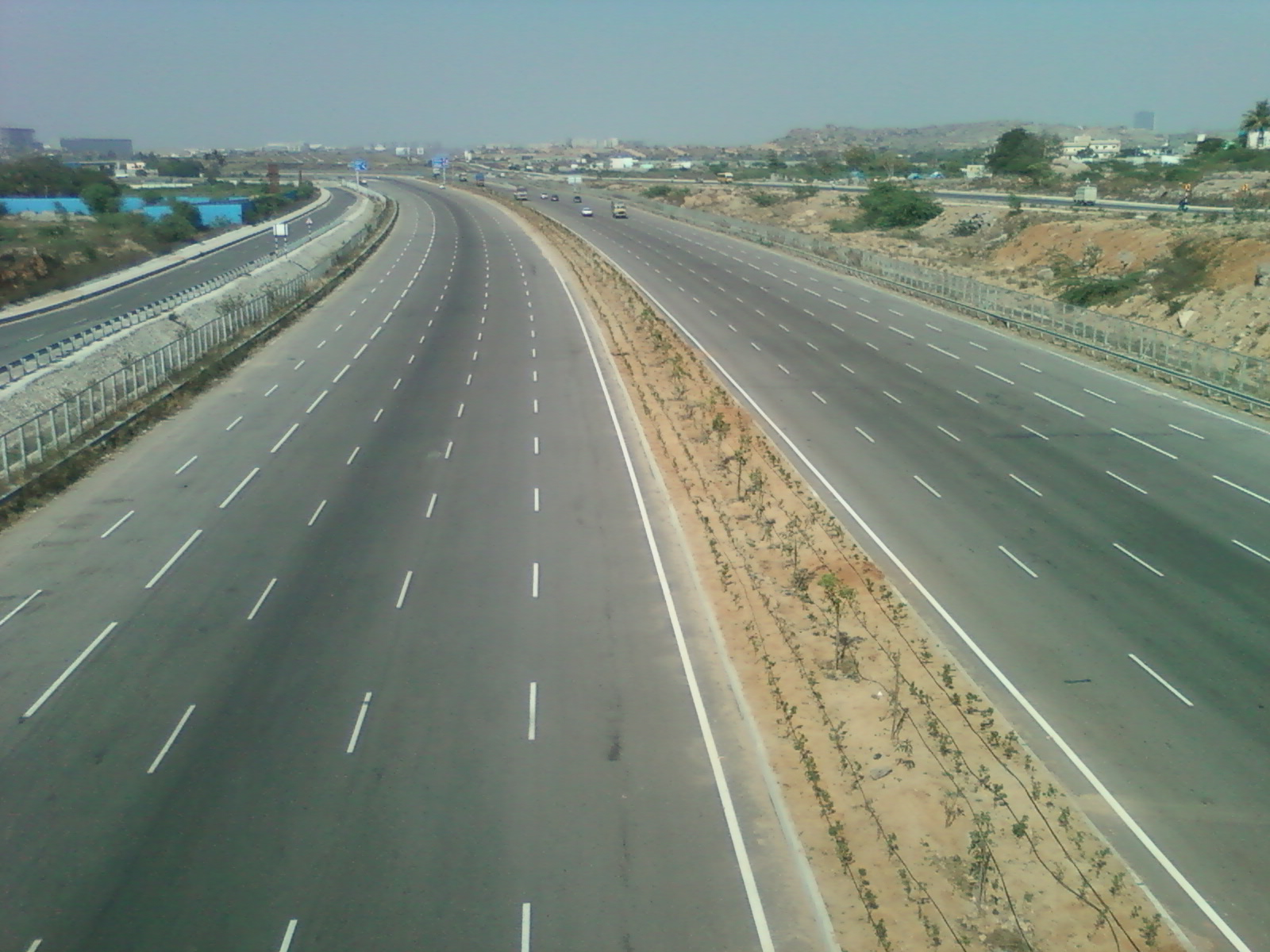 Outer Ring Road (Nehru ORR) at Narsinghi, Hyderabad